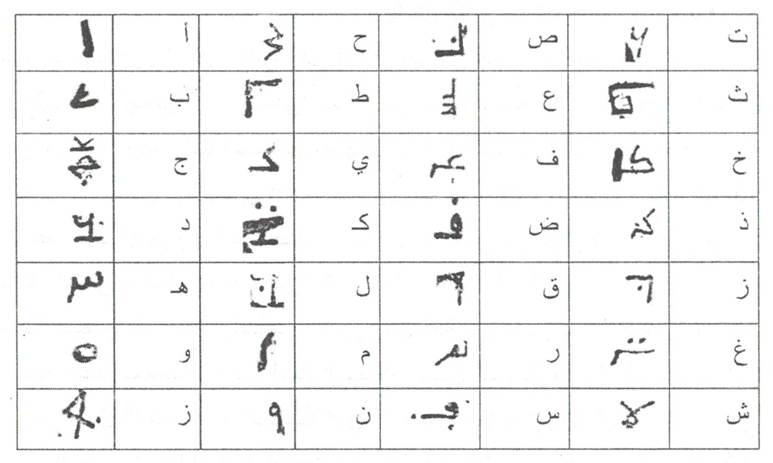 Encryption